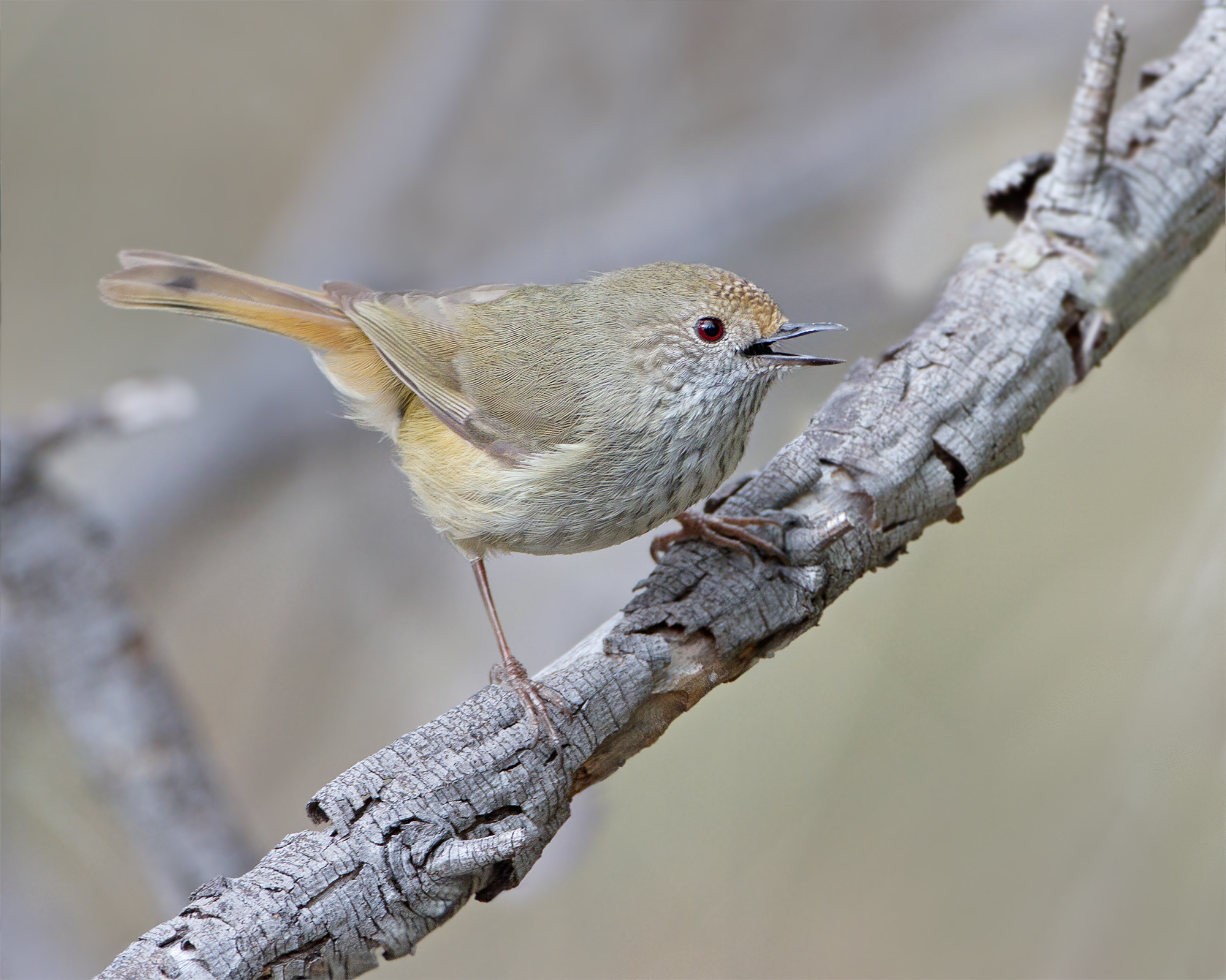 Brown Thornbill (Acanthiza pusilla), Risdon Brook Park, Tasmania, Australia